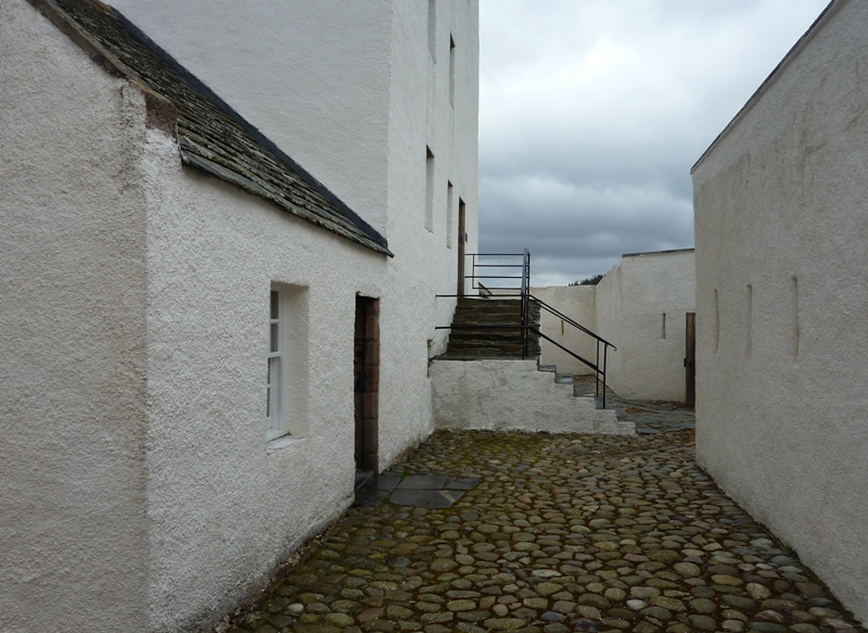 Corgarff Castle, Aberdeenshire, Scotland. Courtyard from west.